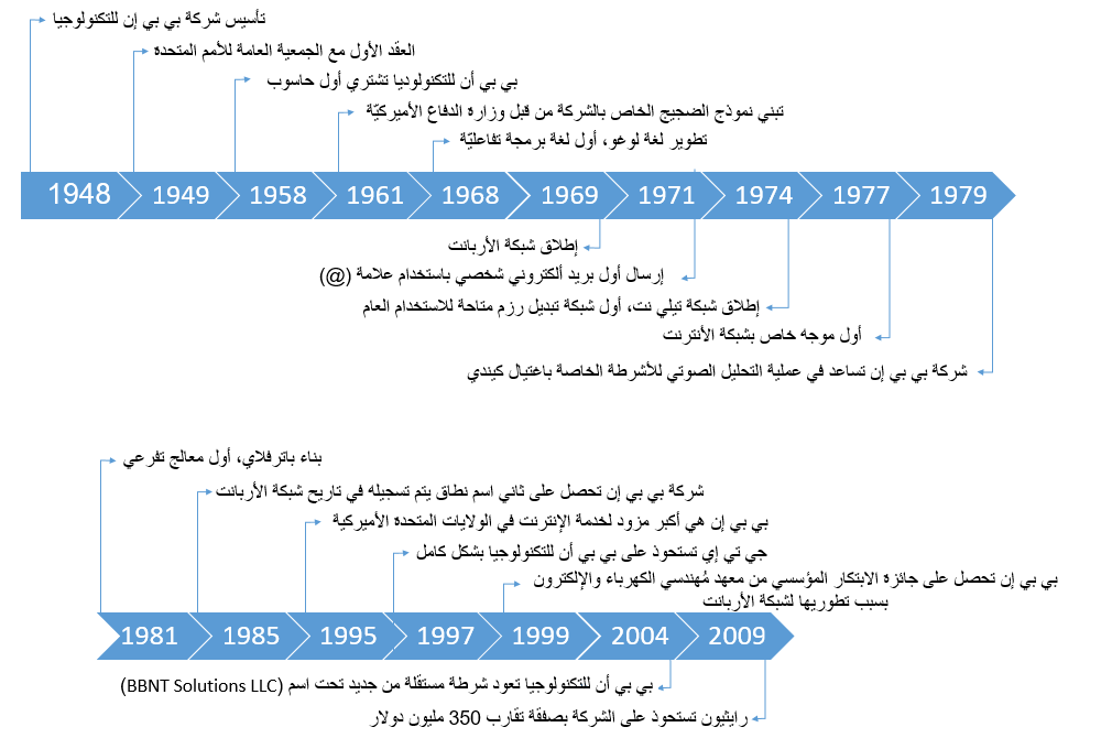 BBN Technologies timeline (1948-)